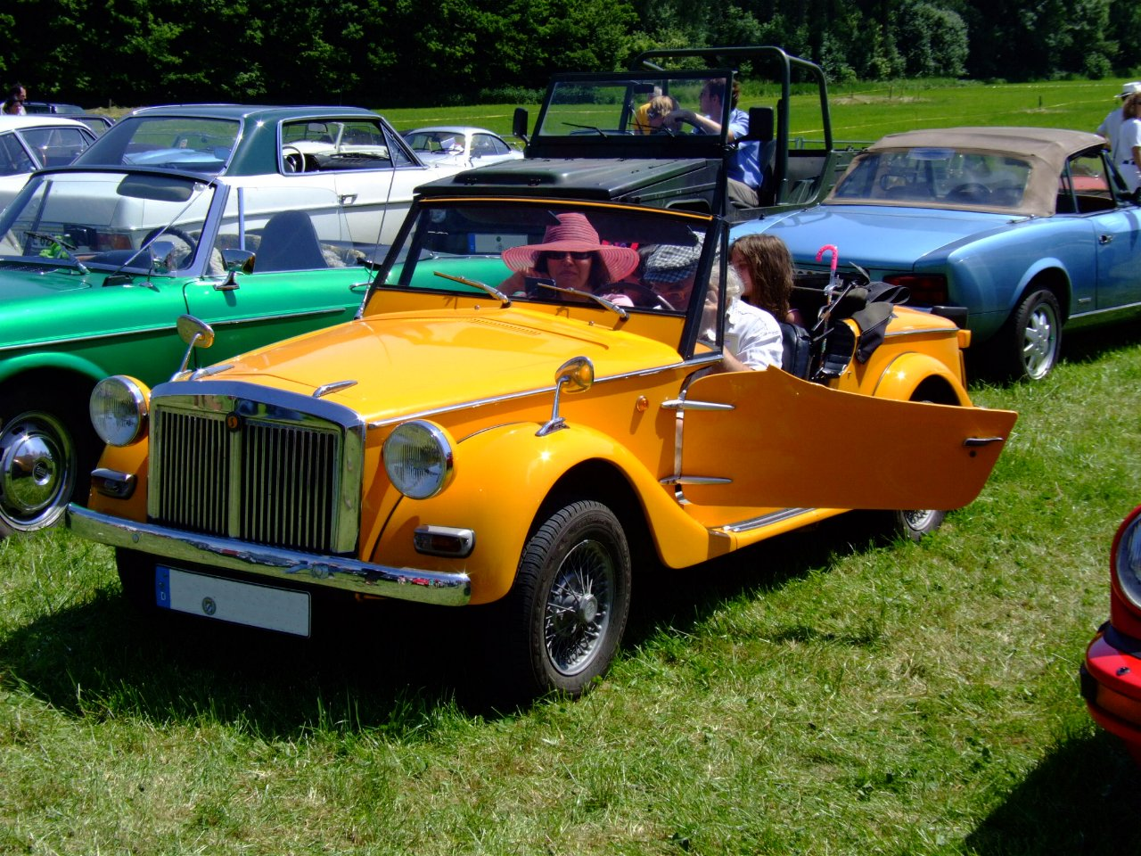 Summary Quelle: selbst fotografiert, 06/2006 Fotograf: Späth Chr. Licensing